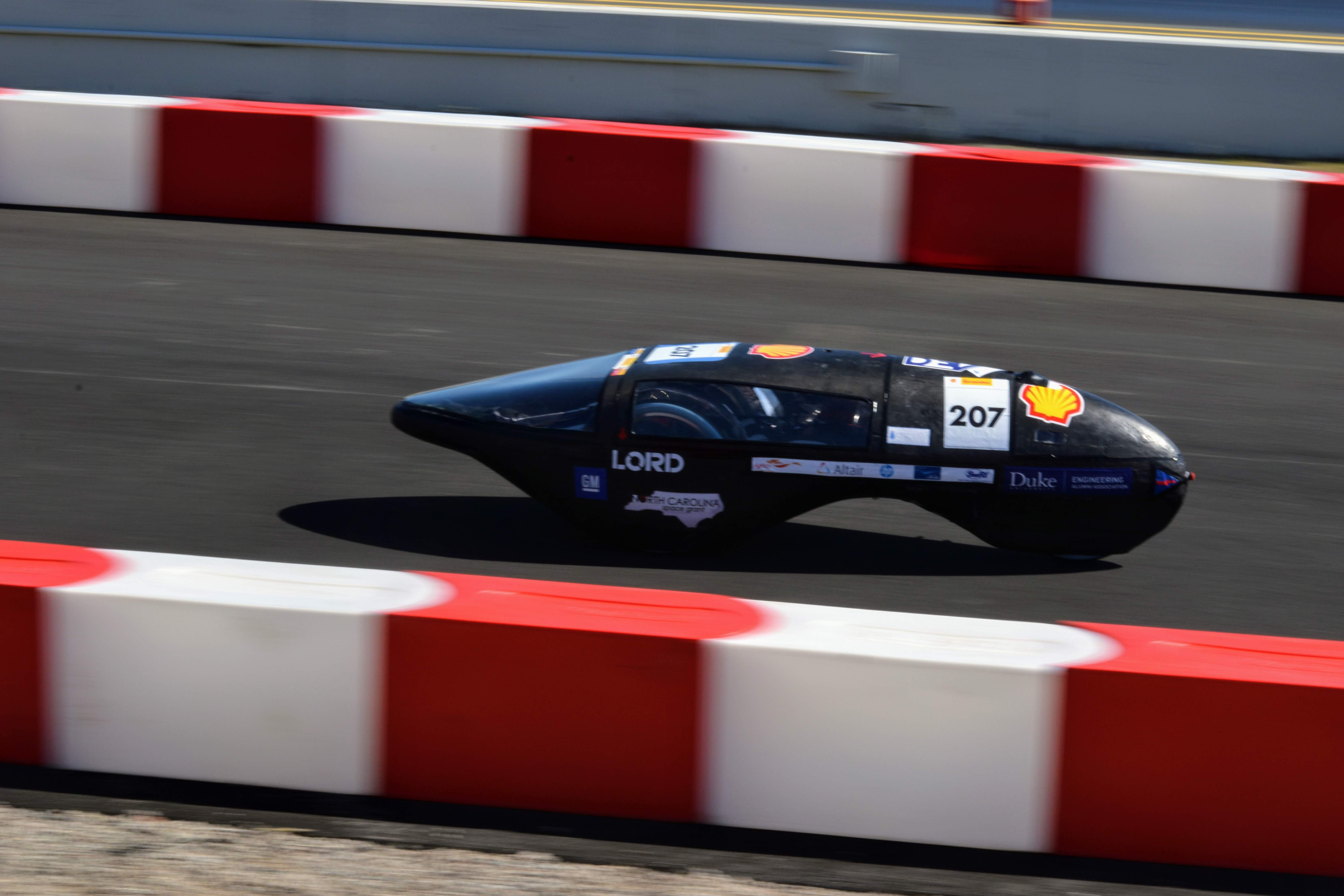 Gemini on track during the 2018 Shell Eco-Marathon Americas in Sonoma, CA